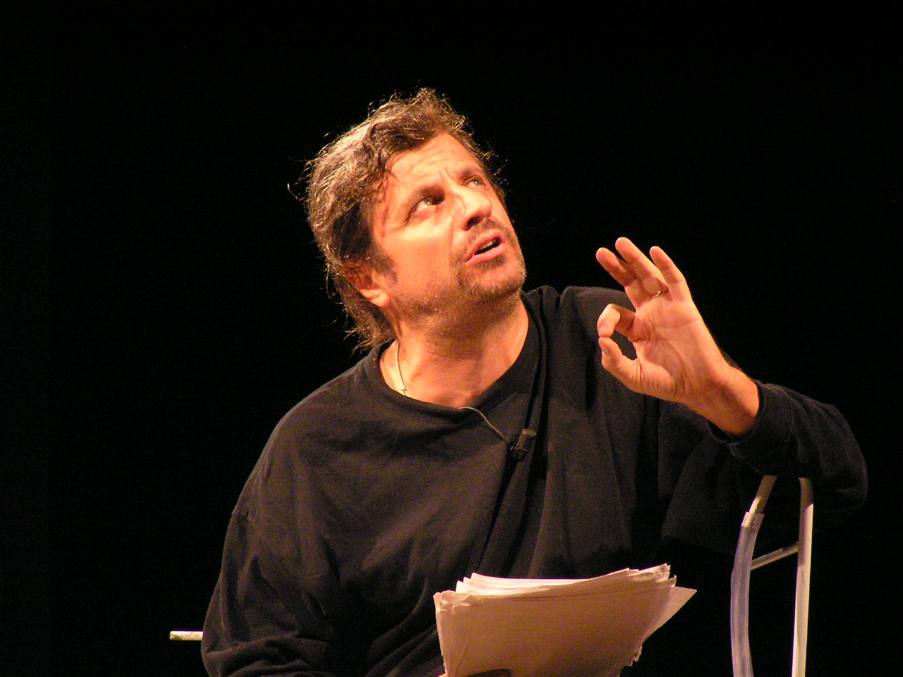 The Italian showman and writer Alessandro Bergonzoni at a show - July 29, 2004